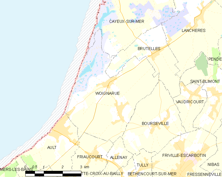 Map of French municipality Woignarue